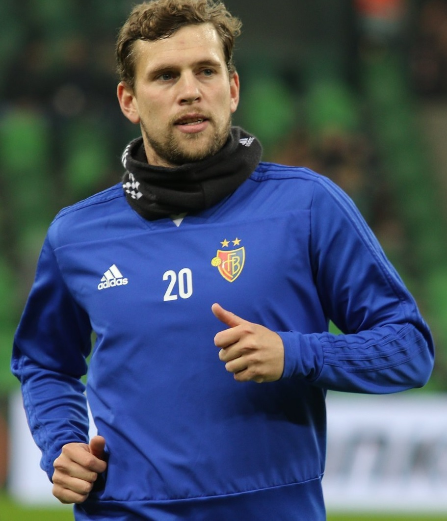 Fabian Frei warming up for FC Basel before an Europa League game against FC Krasnodar.